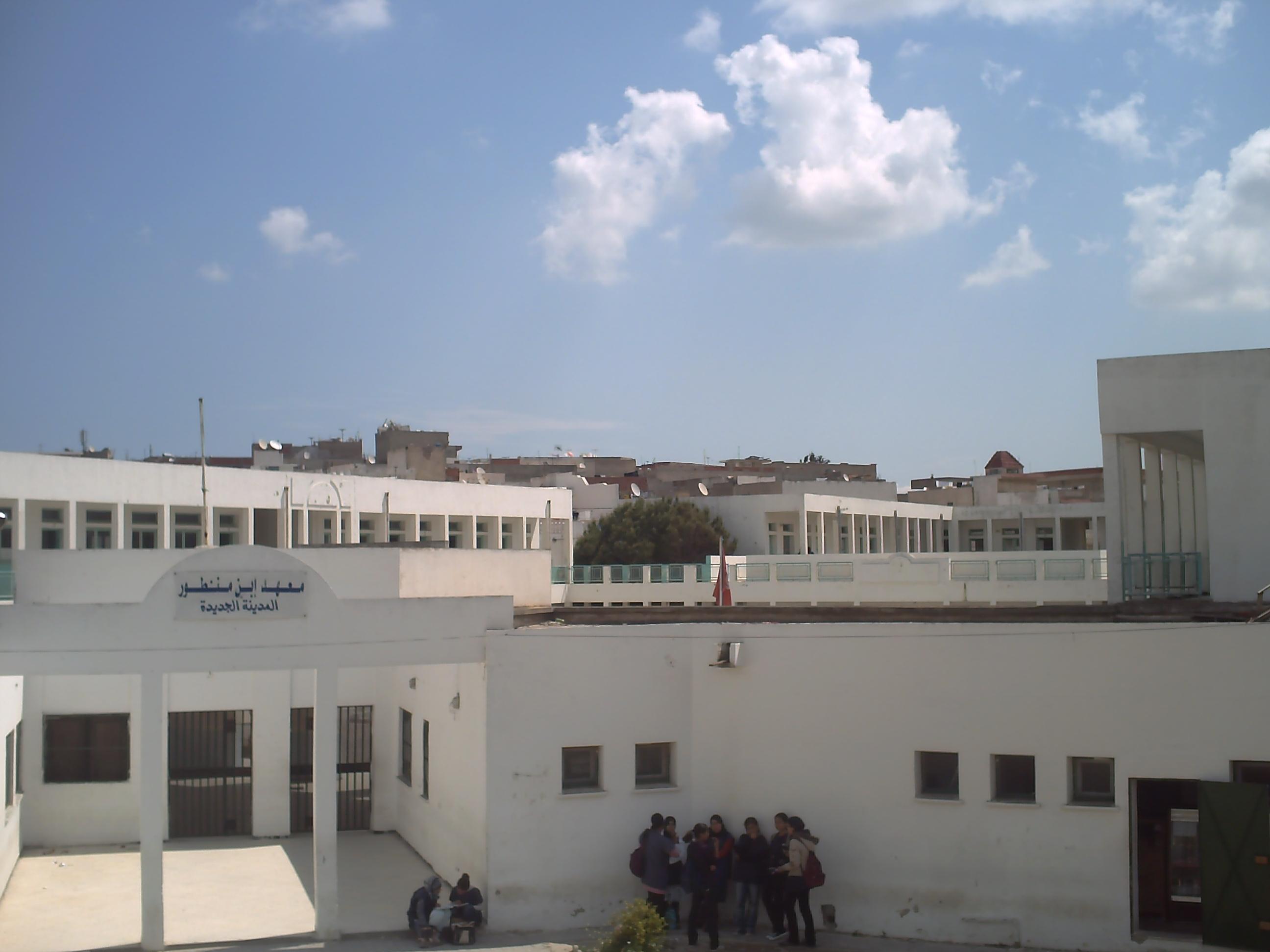 The entry of the secondry school "Ibn Mandhour , nouvelle medina"